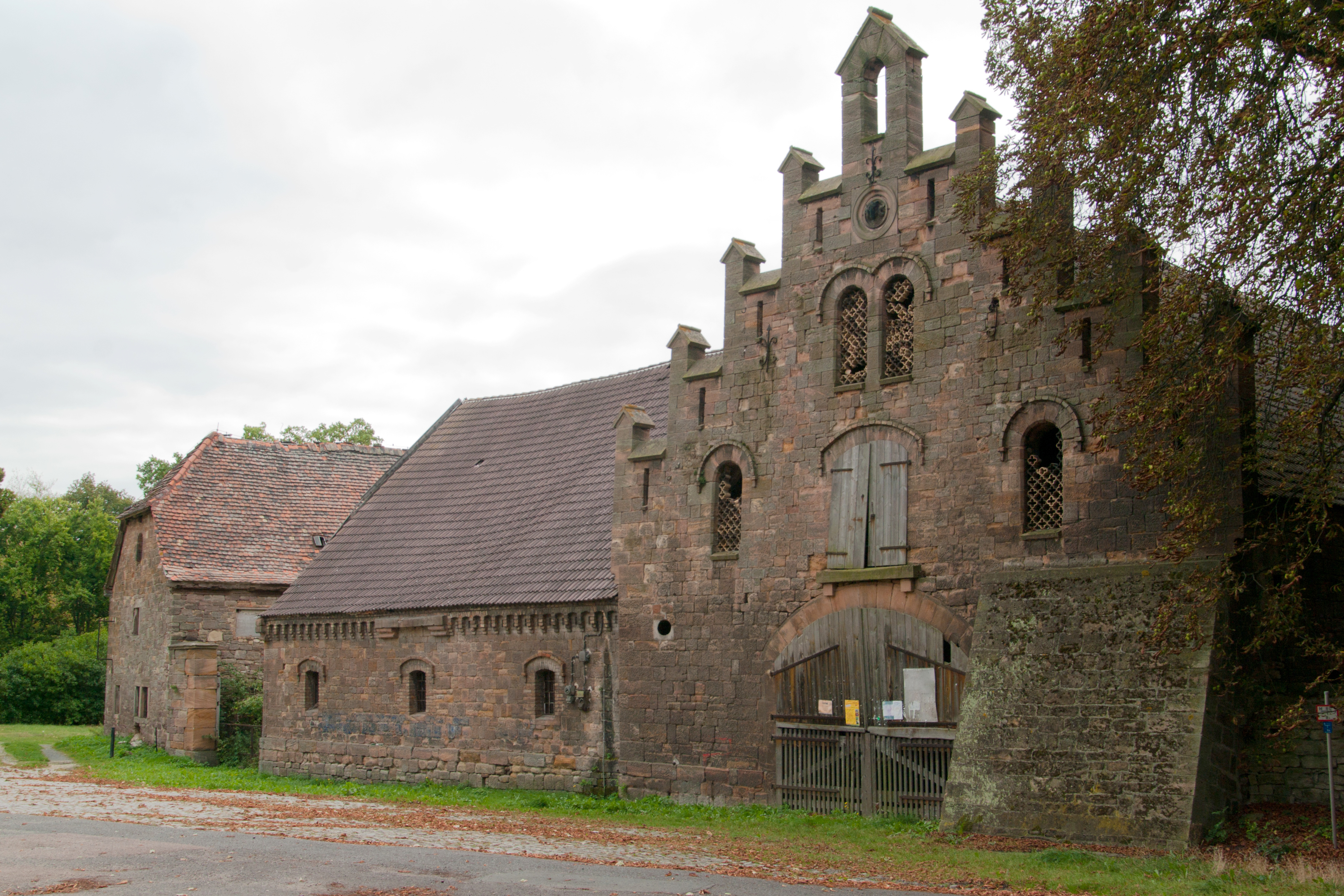 Vitzenburg castle in 2012